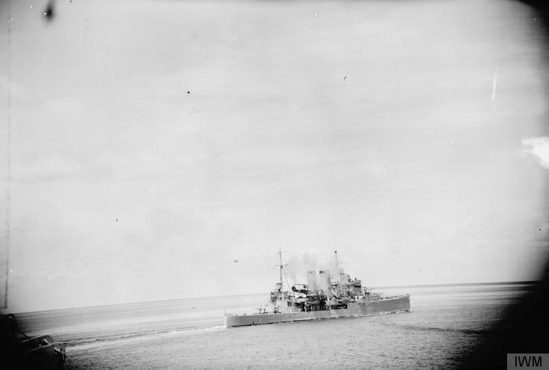 The Royal Navy in the Pacific during the Second World War, 1941-1945 HMS EXETER firing at Japanese aircraft which unsuccessfully attacked the convoy in the Bangka Strait during the 14/15 February 1942.